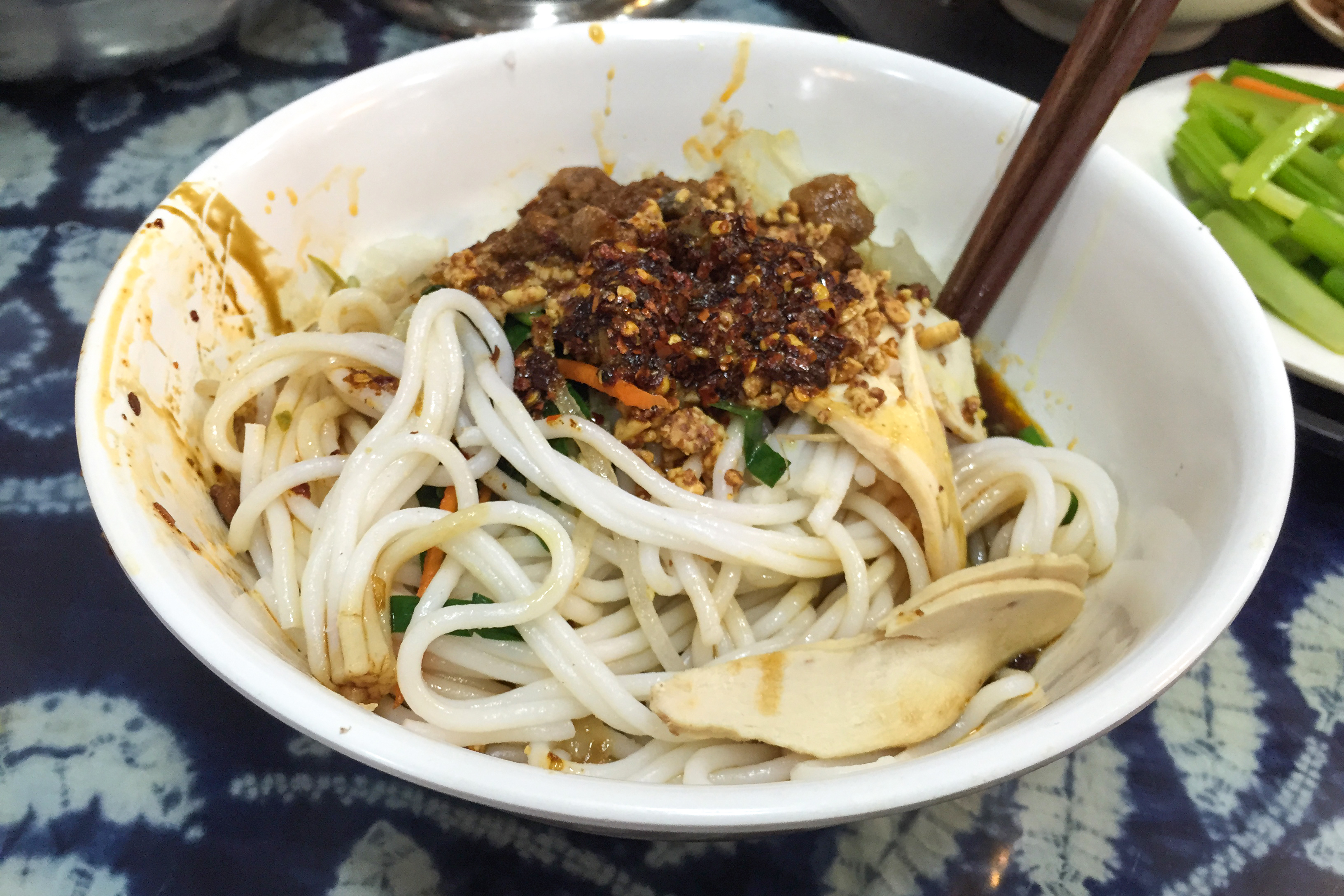 In downtown Kunming. This photo has been taken in the country: China